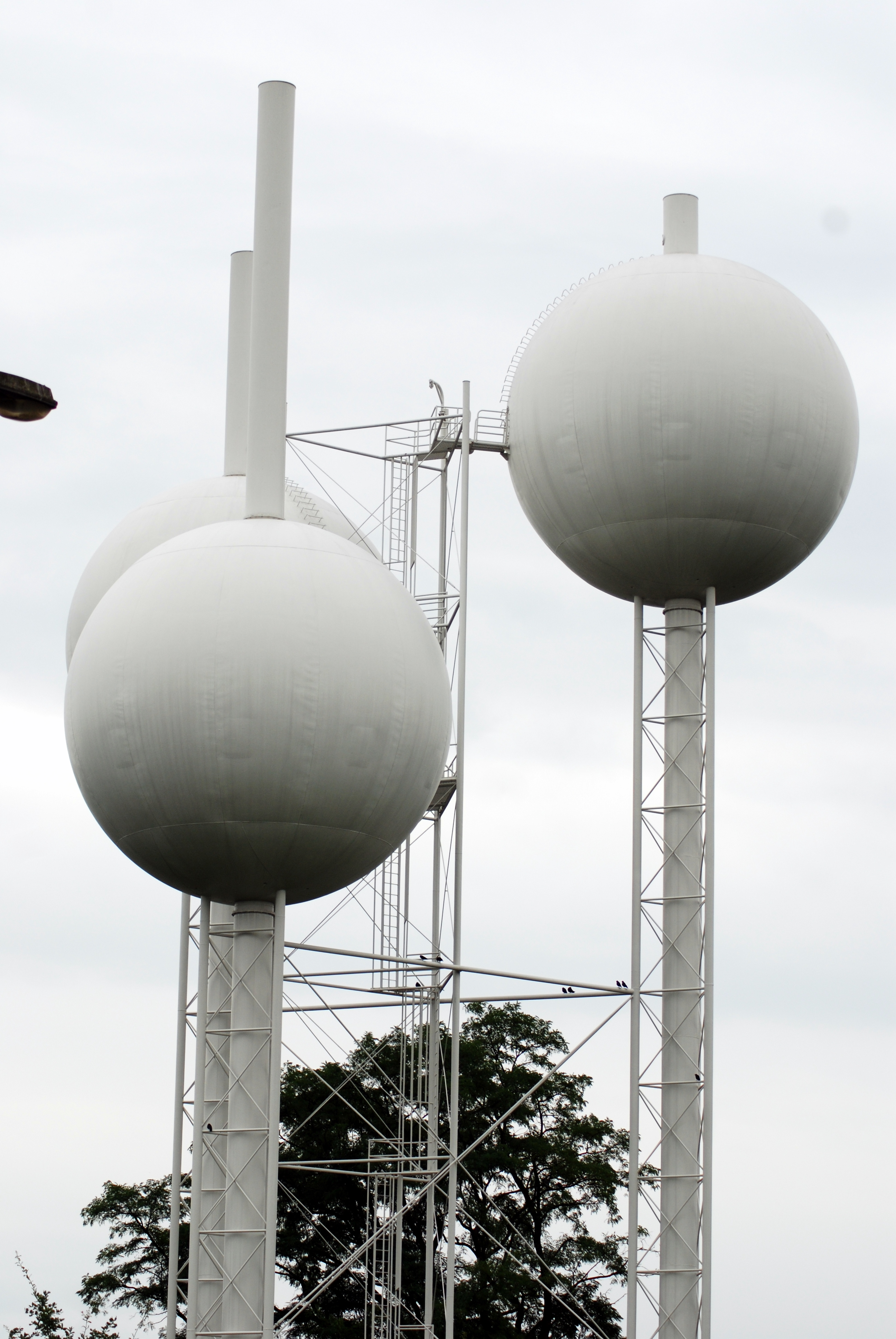 Water Tower in Eindhoven, The Netherlands. Architect: W.G. Quist. Build in 1970. Height: 43,45 meters.